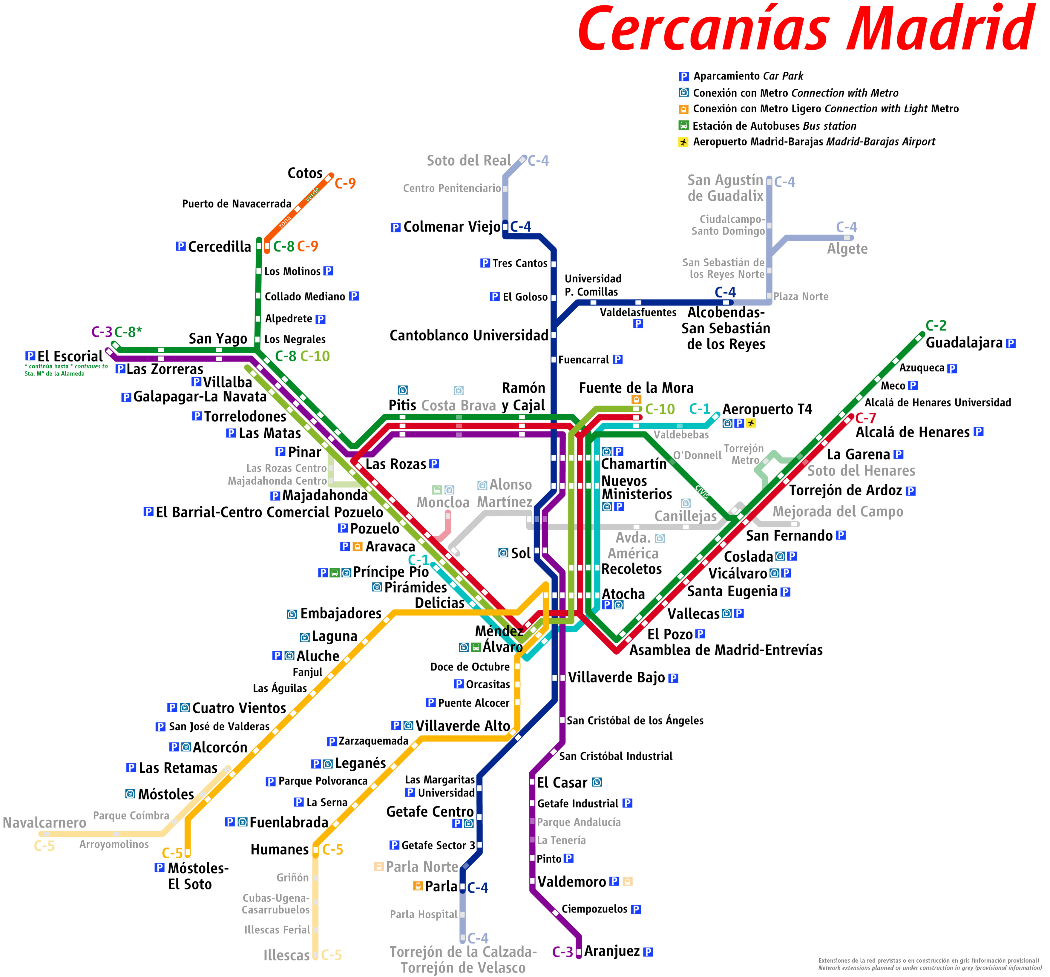 Map of Madrid suburban rail network (as of April 2012), with future extensions